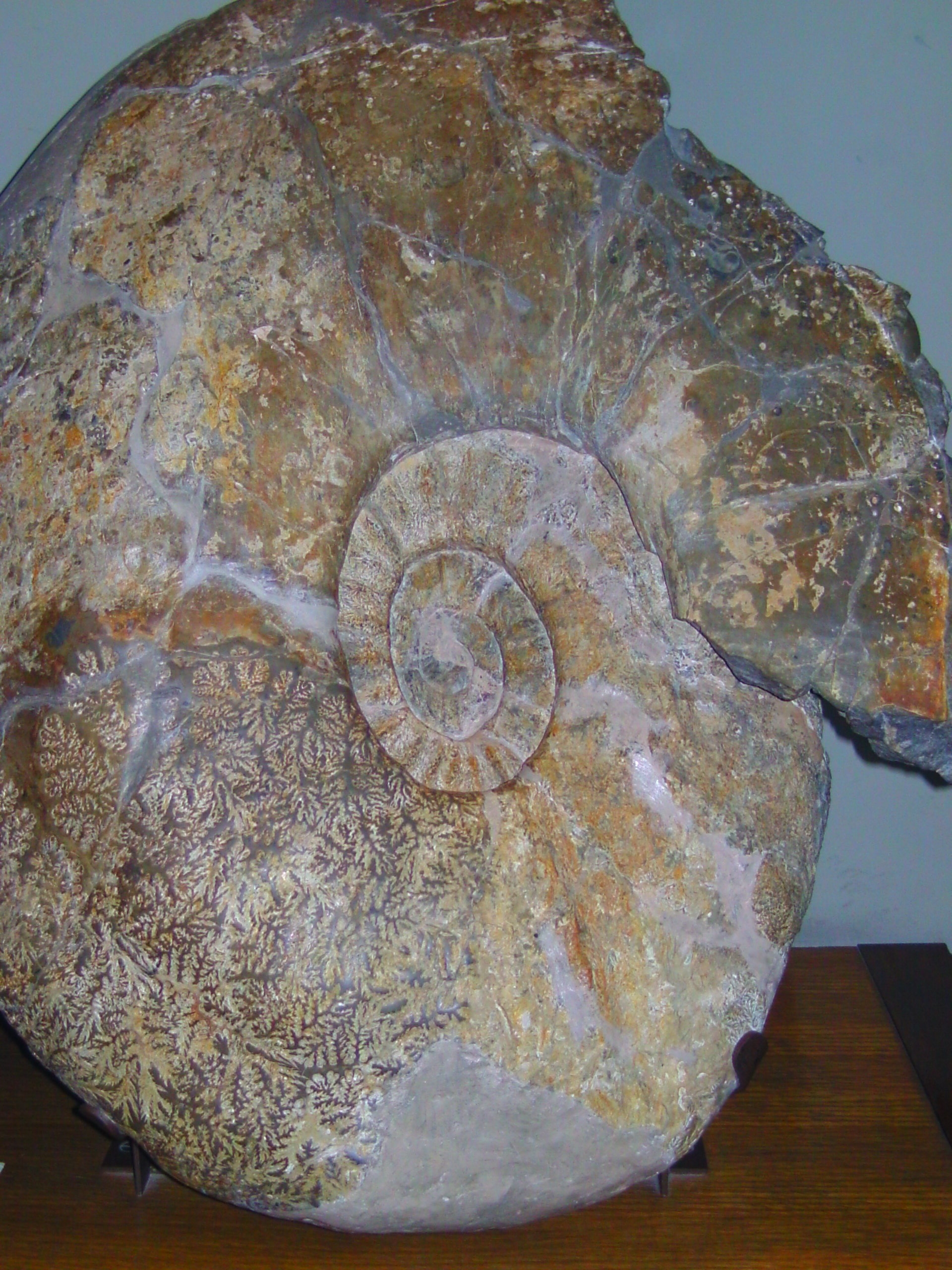 Specimen of the ammonite species Parapuzosia seppenradensis (LANDOIS 1895) from the “Sandkalkbank” (“sandy limestone bed”) of the Hochmoos formation (Santonian, Upper Cretaceous), Finstergrabenwandl site, Gosau municipality, Upper Austria, on display in the Vienna Natural History Museum. The specimen is 95 cm (~38 in) in diameter and weighs 180 kg (397 lbs) and is thus the second largest ammonite ever found in Austria.